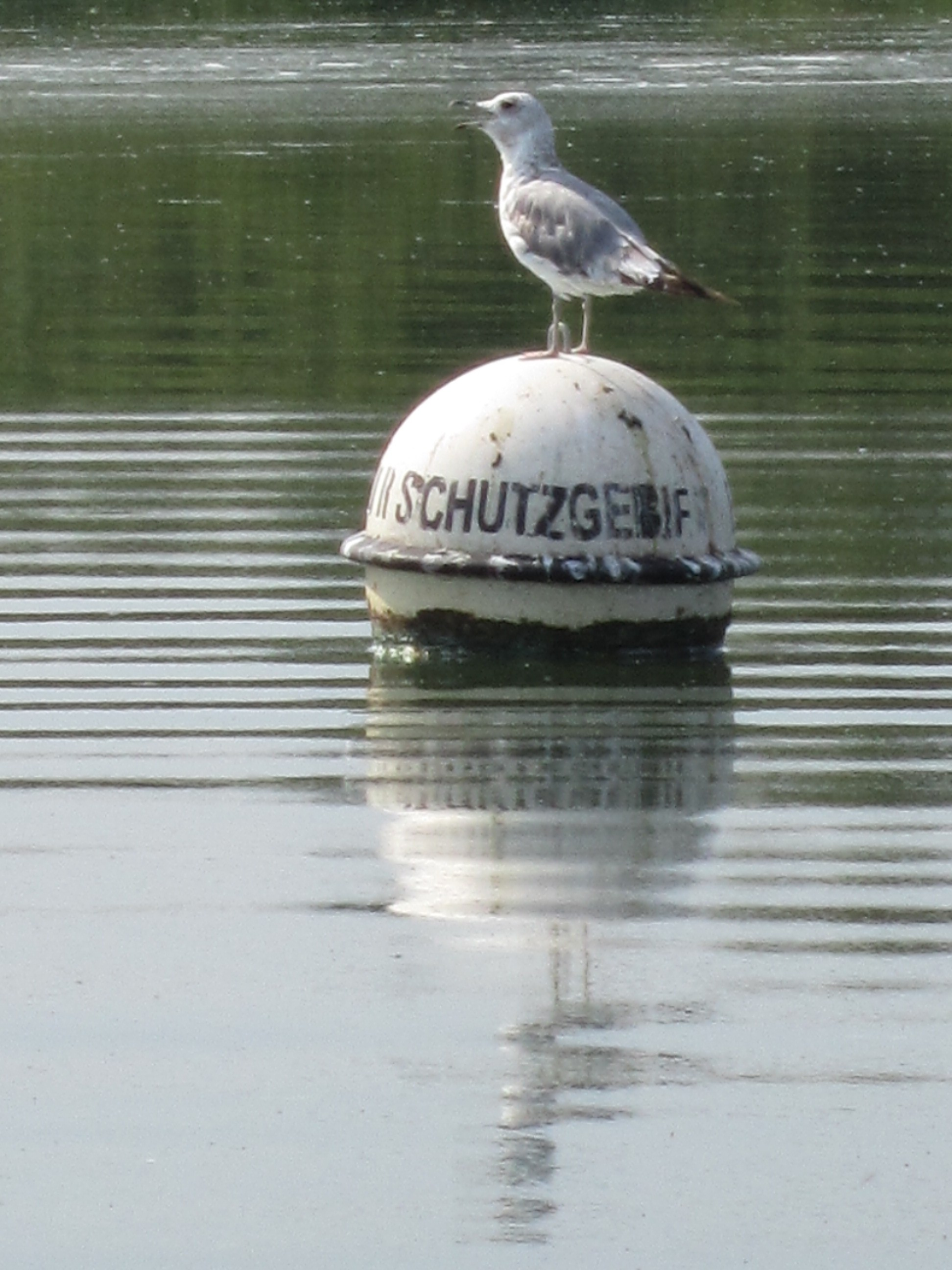 Border of the nature reserve "Duemmer" (Lower Saxony)